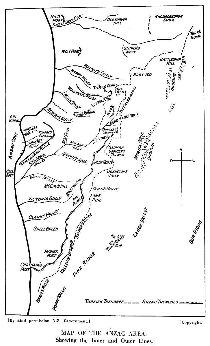 Map of ANZAC area showing inner and outer areas